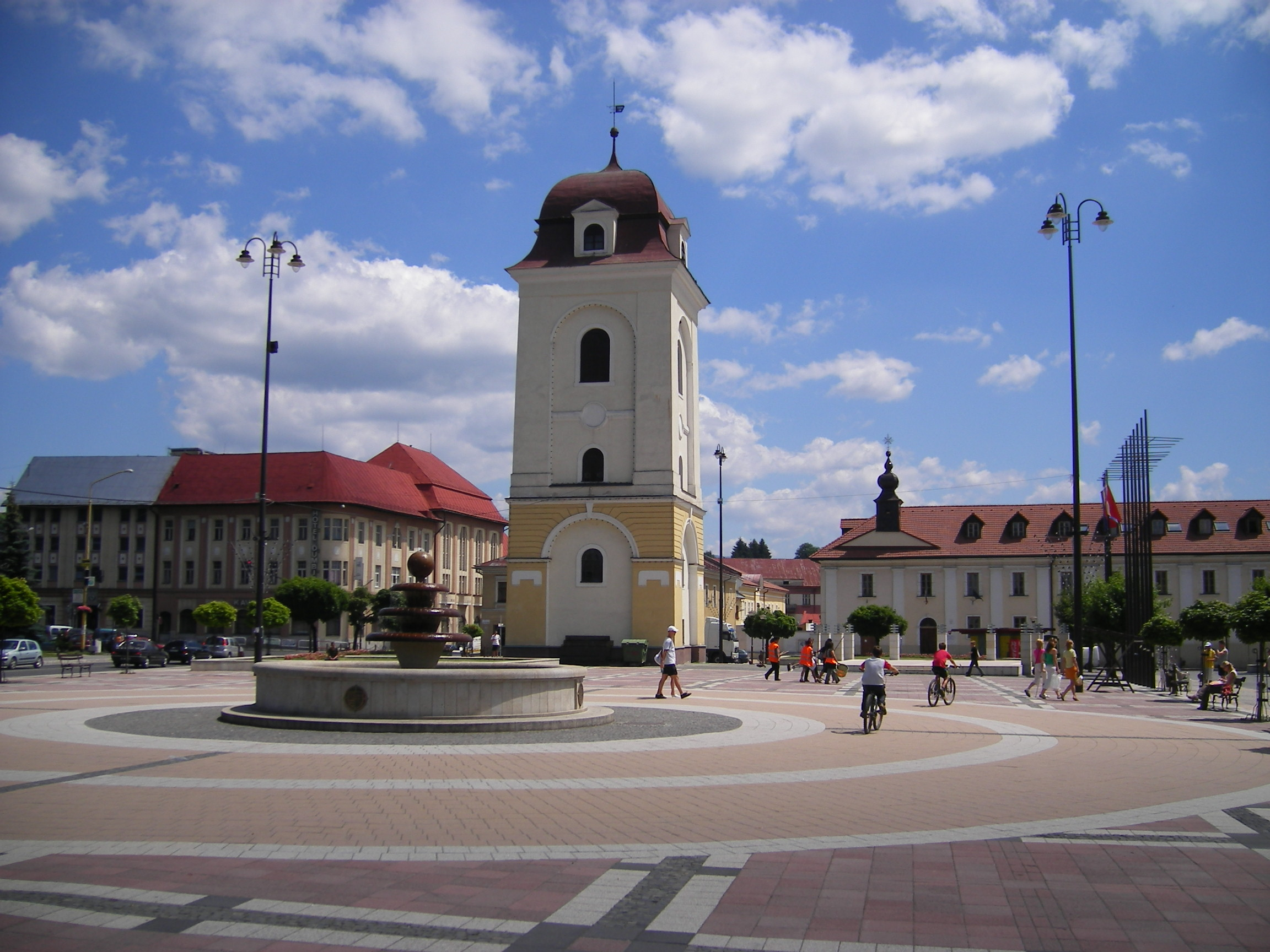 Brezno, Main Square